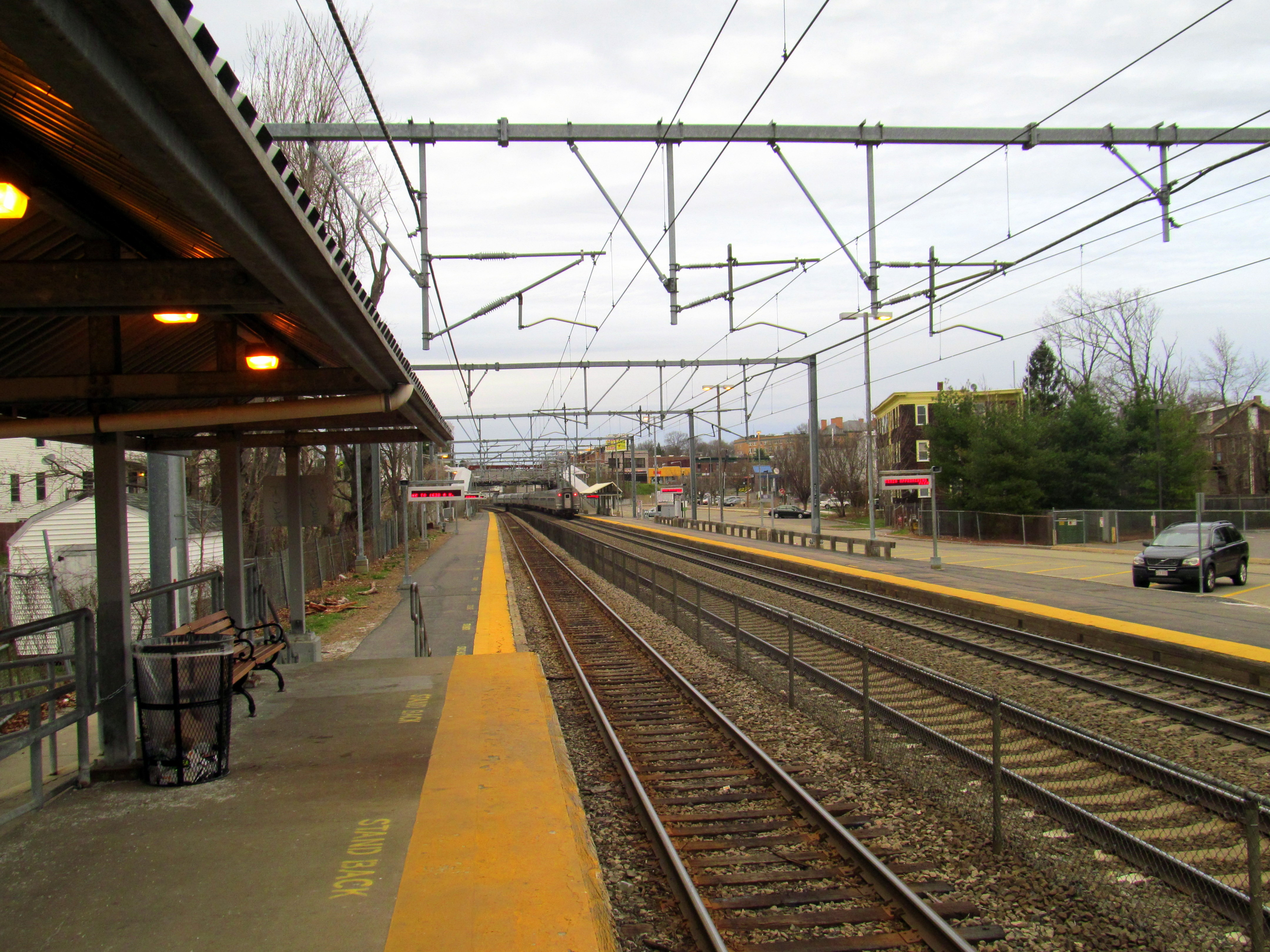 A northbound Northeast Regional speeds through the MBTA's Hyde Park station